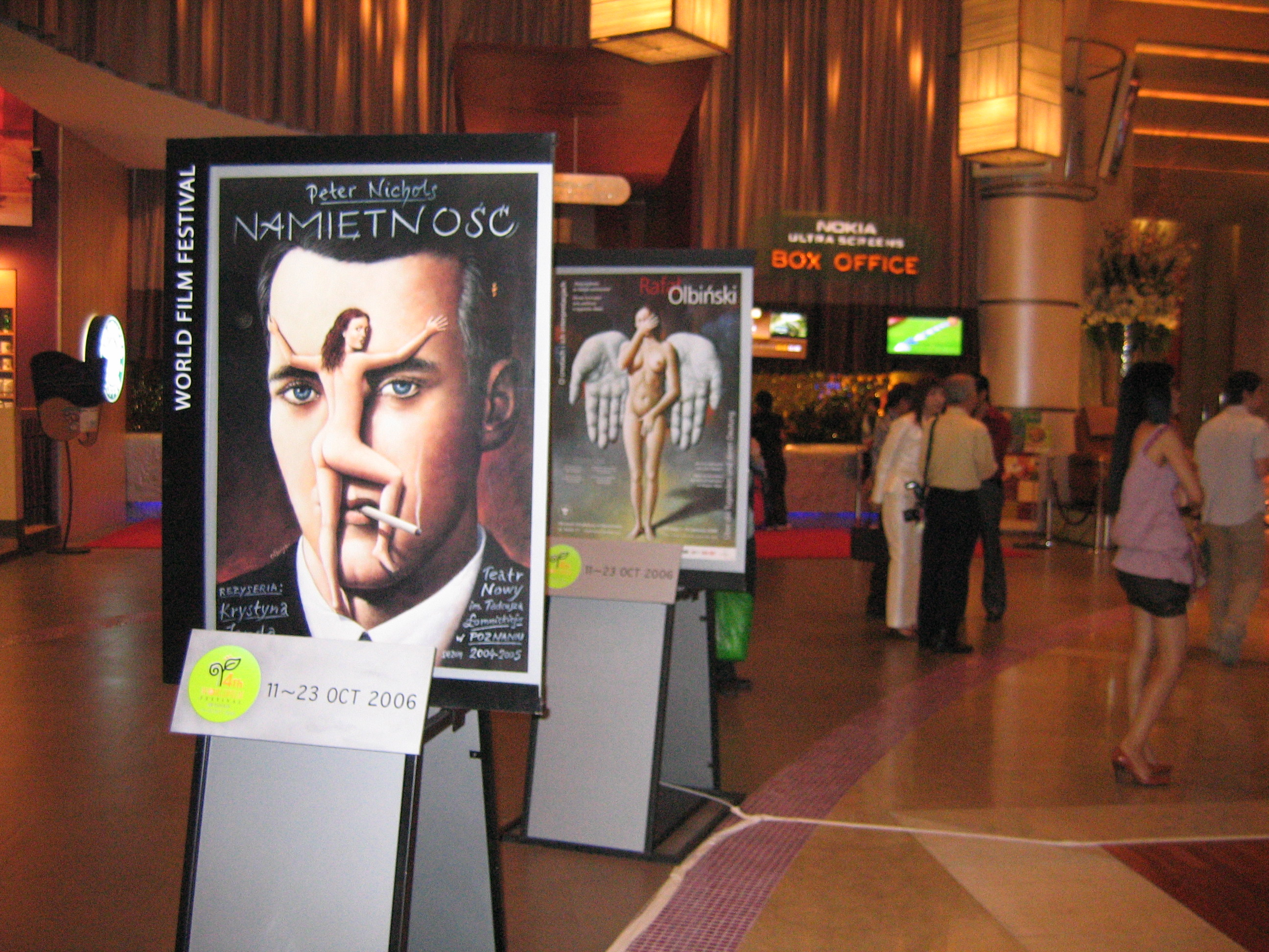 The lobby of Paragon Cineplex at Siam Paragon during the 4th World Film Festival of Bangkok, featuring a poster exhibition by Rafal Olbinski.